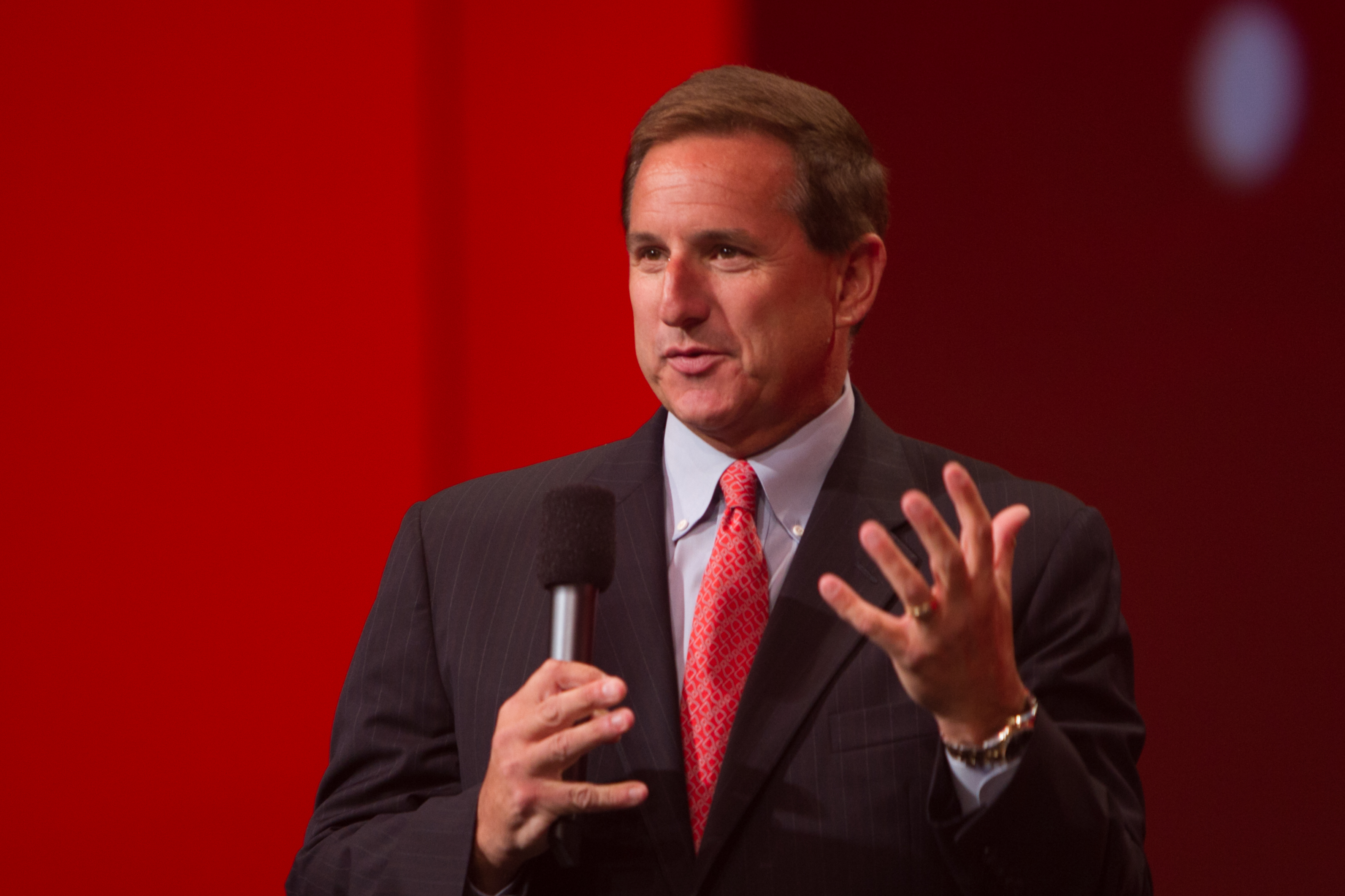 Businessman Mark Hurd, President of Oracle Corporation, at Monday Morning Keynote, September 20, 2010. Photo courtesy of Hartmann Studios.